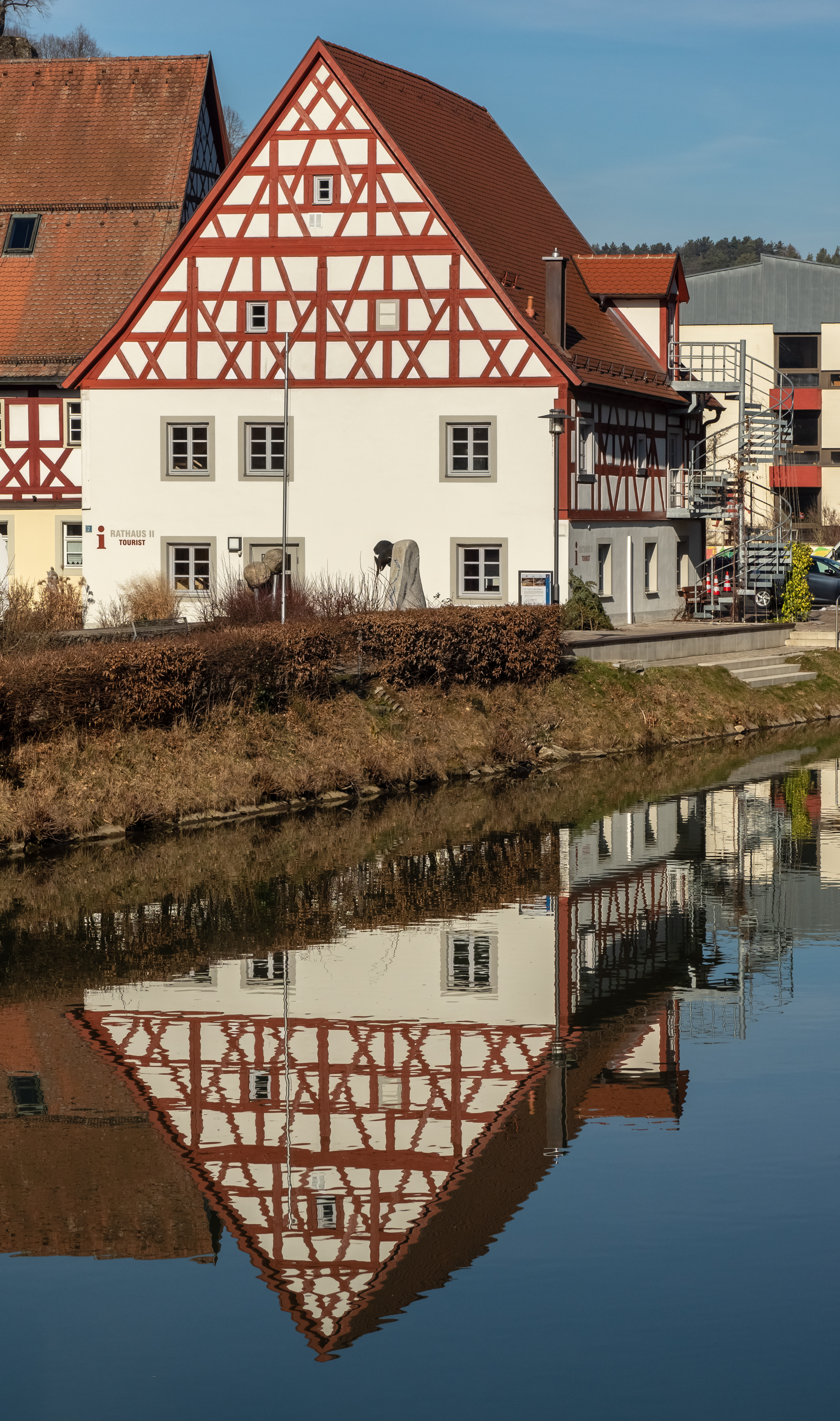 Old Town Hall in Waischenfeld, Bischof-Nausea-Platz 2